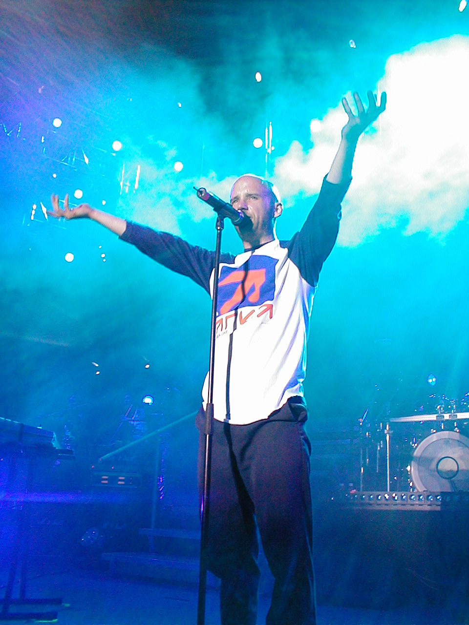 Moby at Area One Tour, Summer 2001